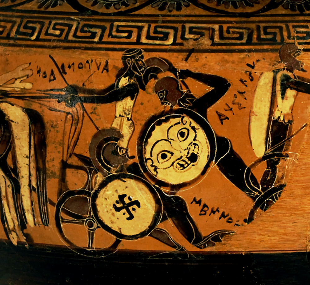 Detail View of Late Corinthian Black-Figure Hydria, ca 575-550 BCE depicting the fight of Achilles and Memnon. The original photograph was uploaded to Wikimedia Commons by Walters Art Museum with the following description: This "hydria", a water-jug, depicts a battle from the Trojan War in which two of the war's greatest heroes, Achilles and Memnon, clash in the presence of their mothers, the goddesses Thetis and Eos. Each warrior has his chariot standing by, with charioteers at the ready. Inscriptions, in the Corinthian alphabet, identify the figures. The painter was obviously proud of his ability to write, a skill that was not widespread. This version of the image has been cropped to focus only on the fight between Achilles and Memnon, and digitally edited to reduce the glare.